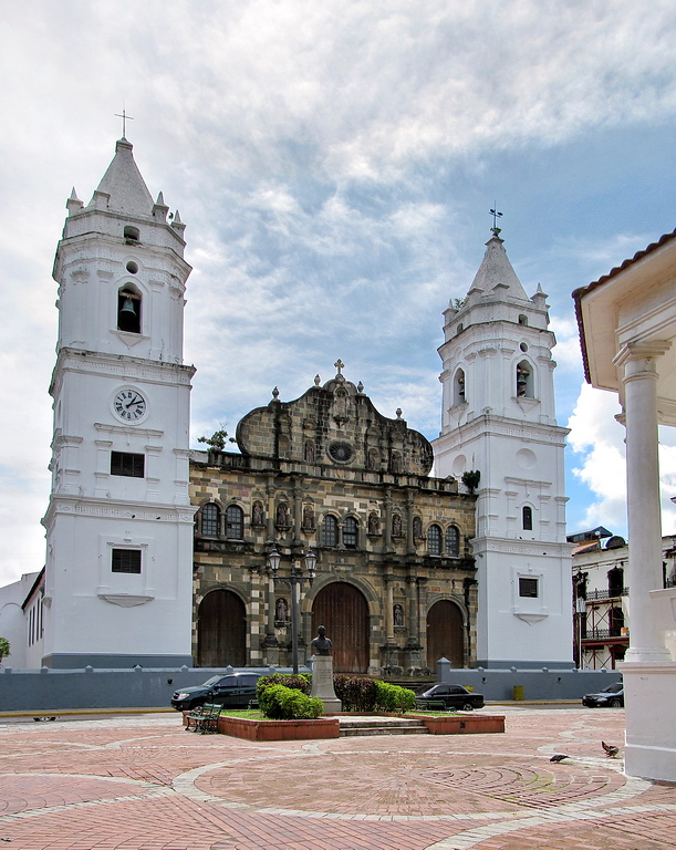 Catedral Metropolitana de Panamá.